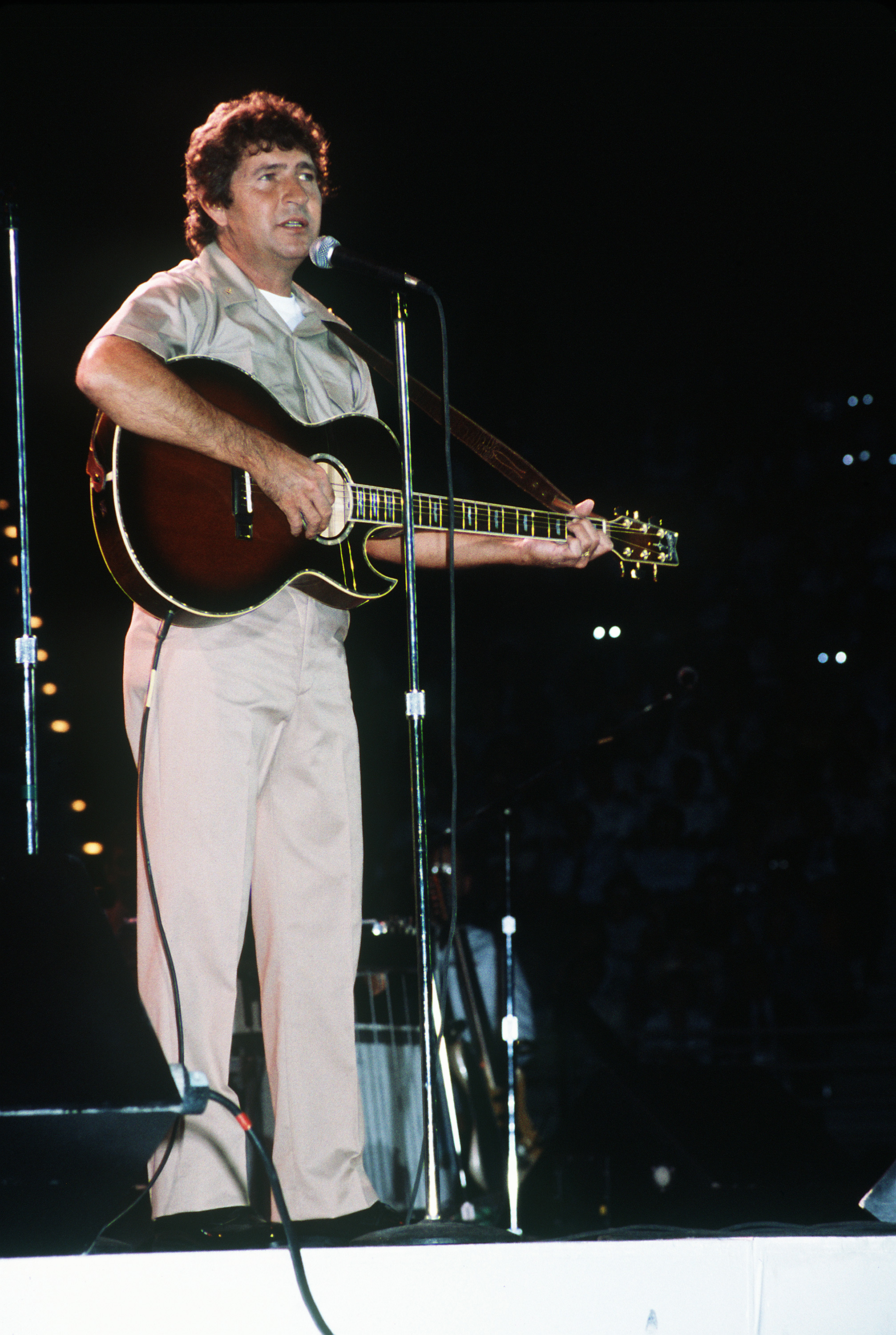 Country western music singer Mac Davis performs in a United Service Organizations (USO) show in the Pensacola Civic Center during the celebration of the 75th anniversary of naval aviation. VIRIN DN-ST-87-03194